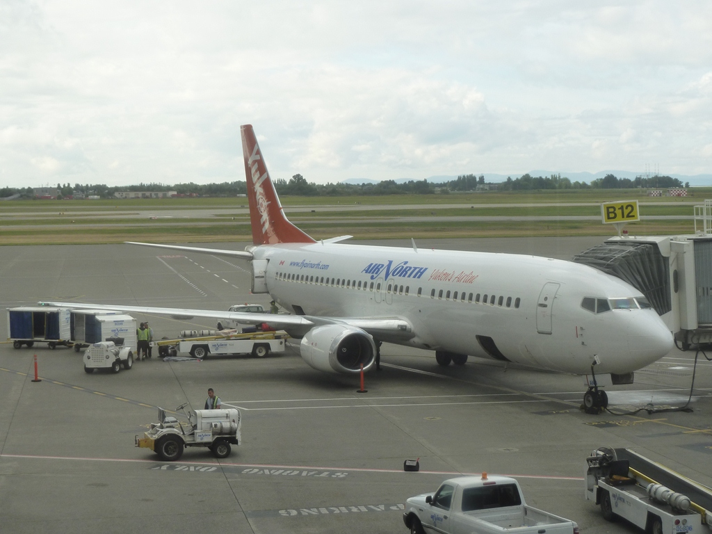 Air North